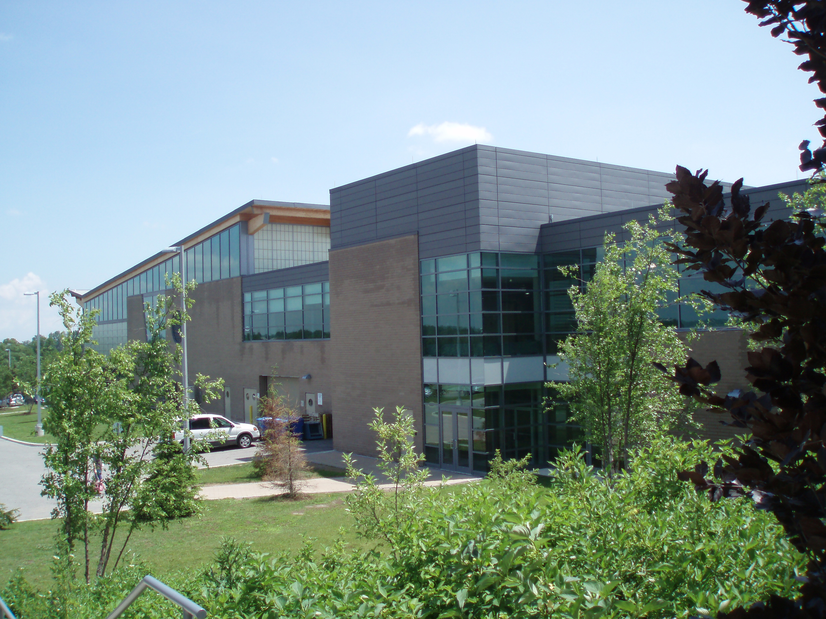 Angus Glen Community Centre at Markham, Canada